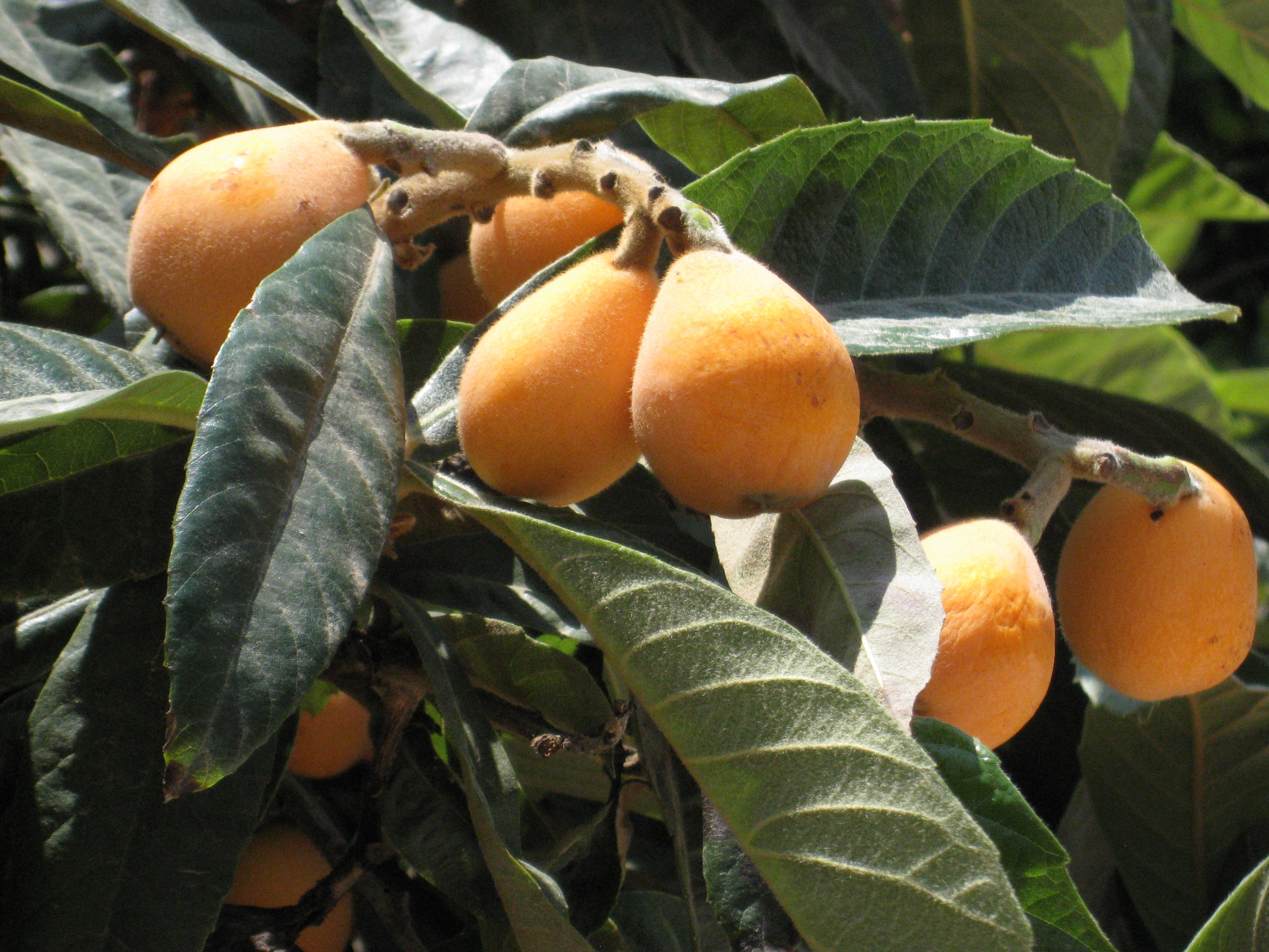 fruit trees